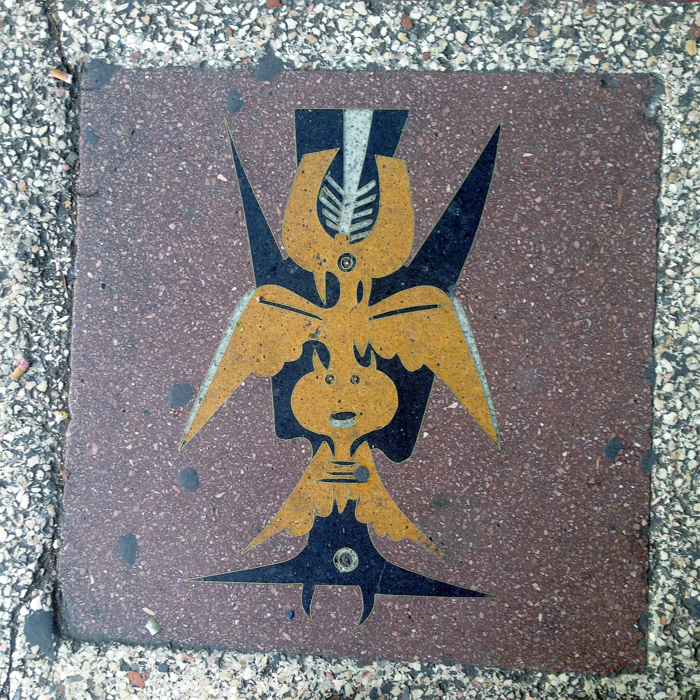 Salón de Mayo, 1967. Wilfredo Lam. Radiocentro CMQ Sidewalk. Havana, Cuba